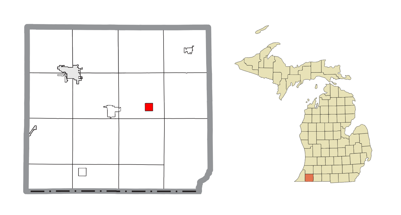 Vandalia, MI